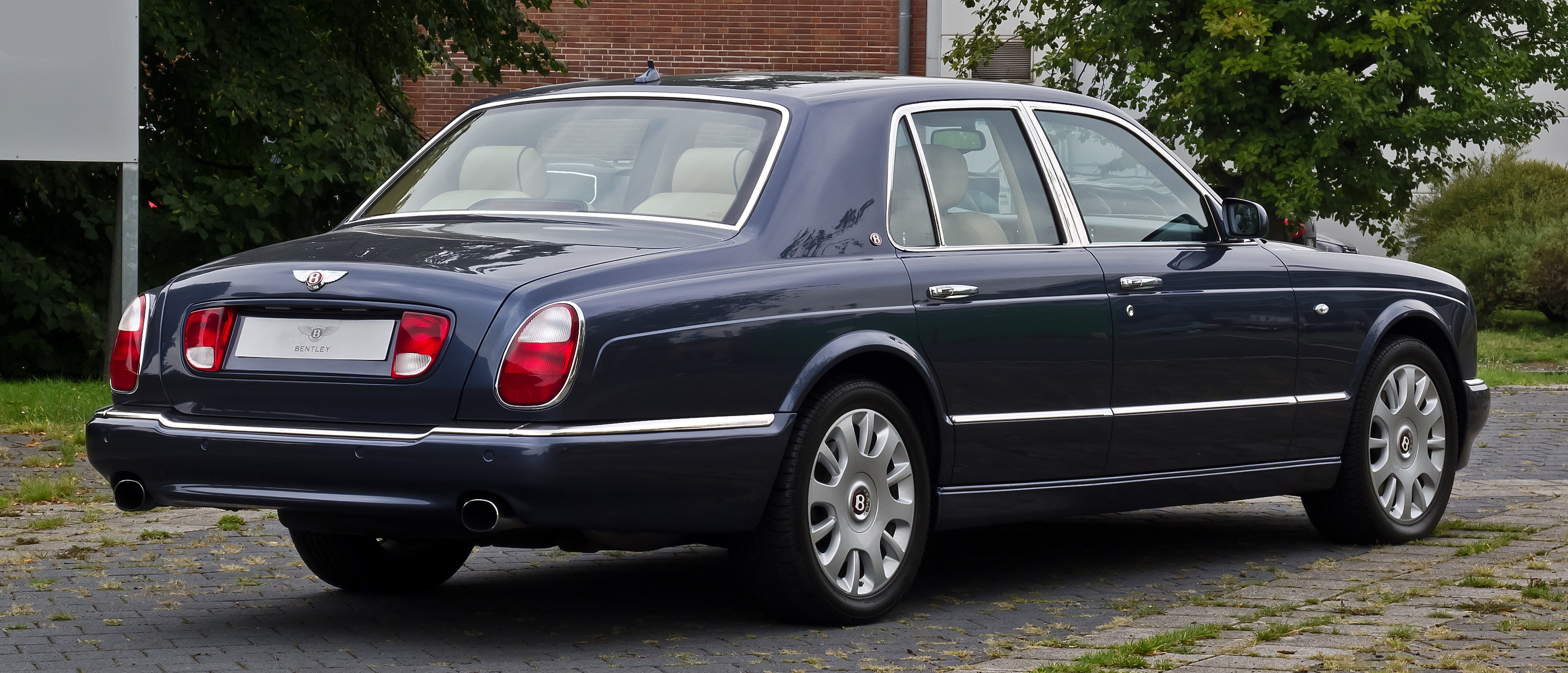 Bentley Arnage R (Facelift)